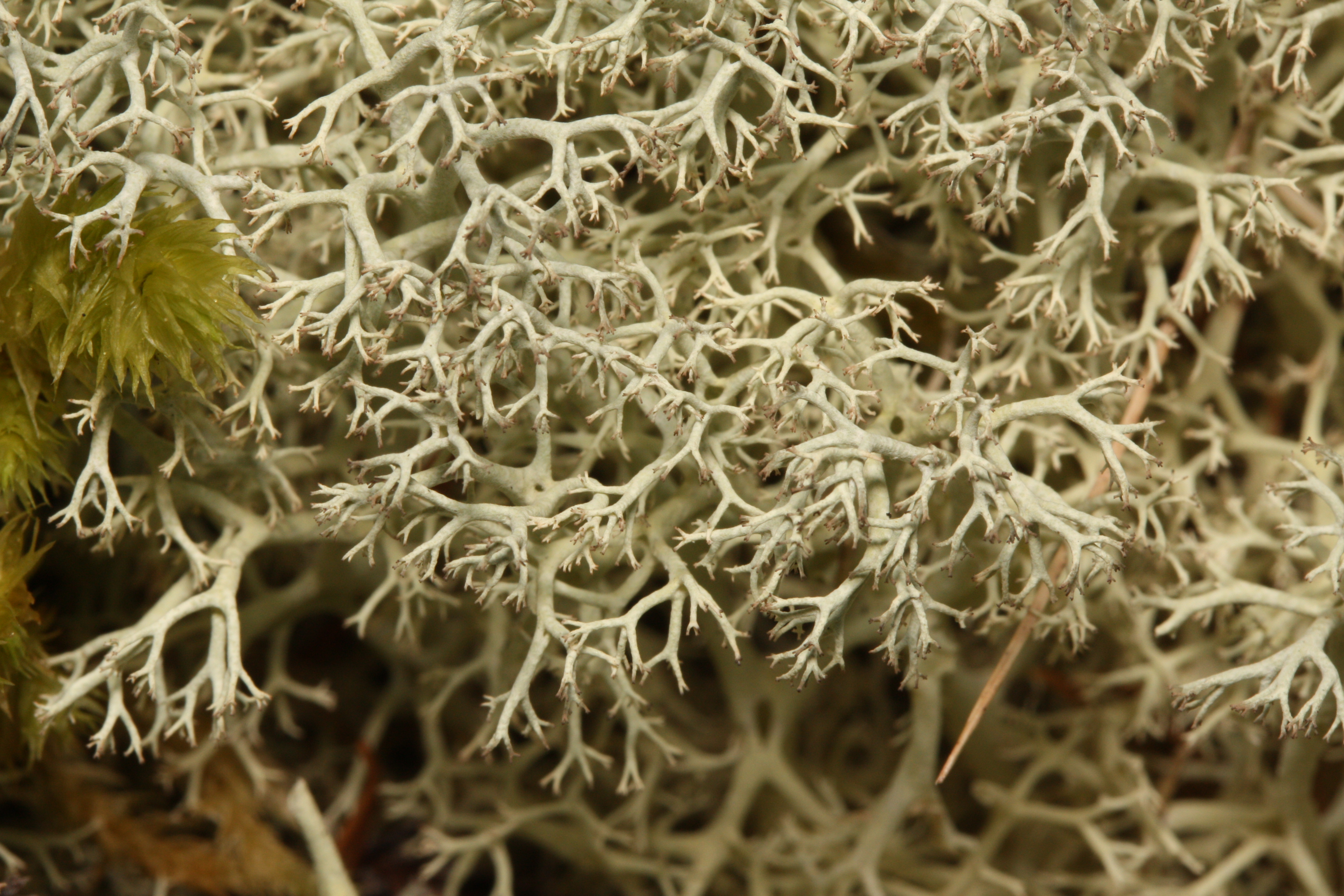 Pacific Reindeer Lichen